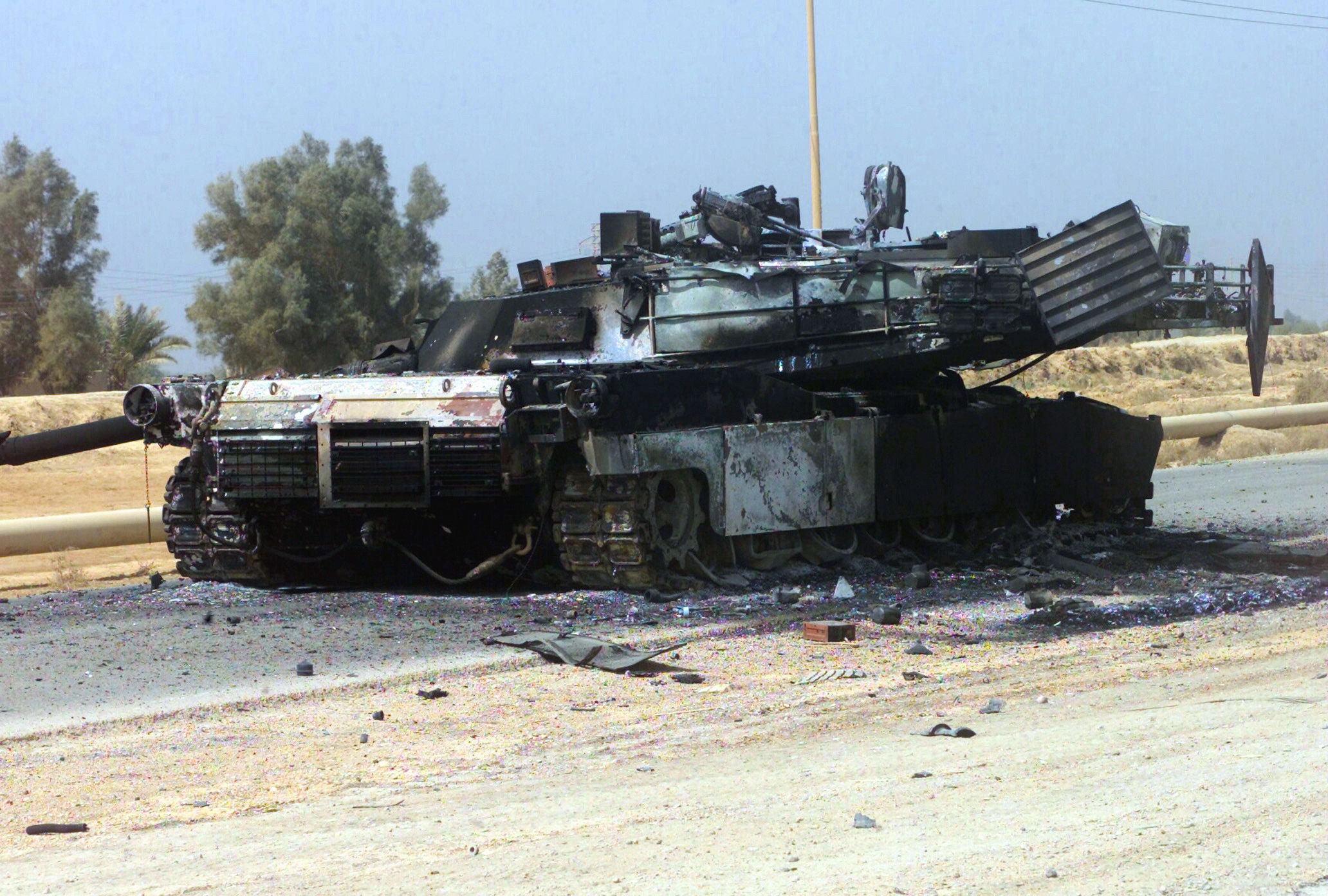 On the road to Baghdad, a US Marine Corps (USMC) M1 Abrams Main Battle Tank (MBT) lay destroyed after a firefight with Iraqi troops, during Operation IRAQI FREEDOM.